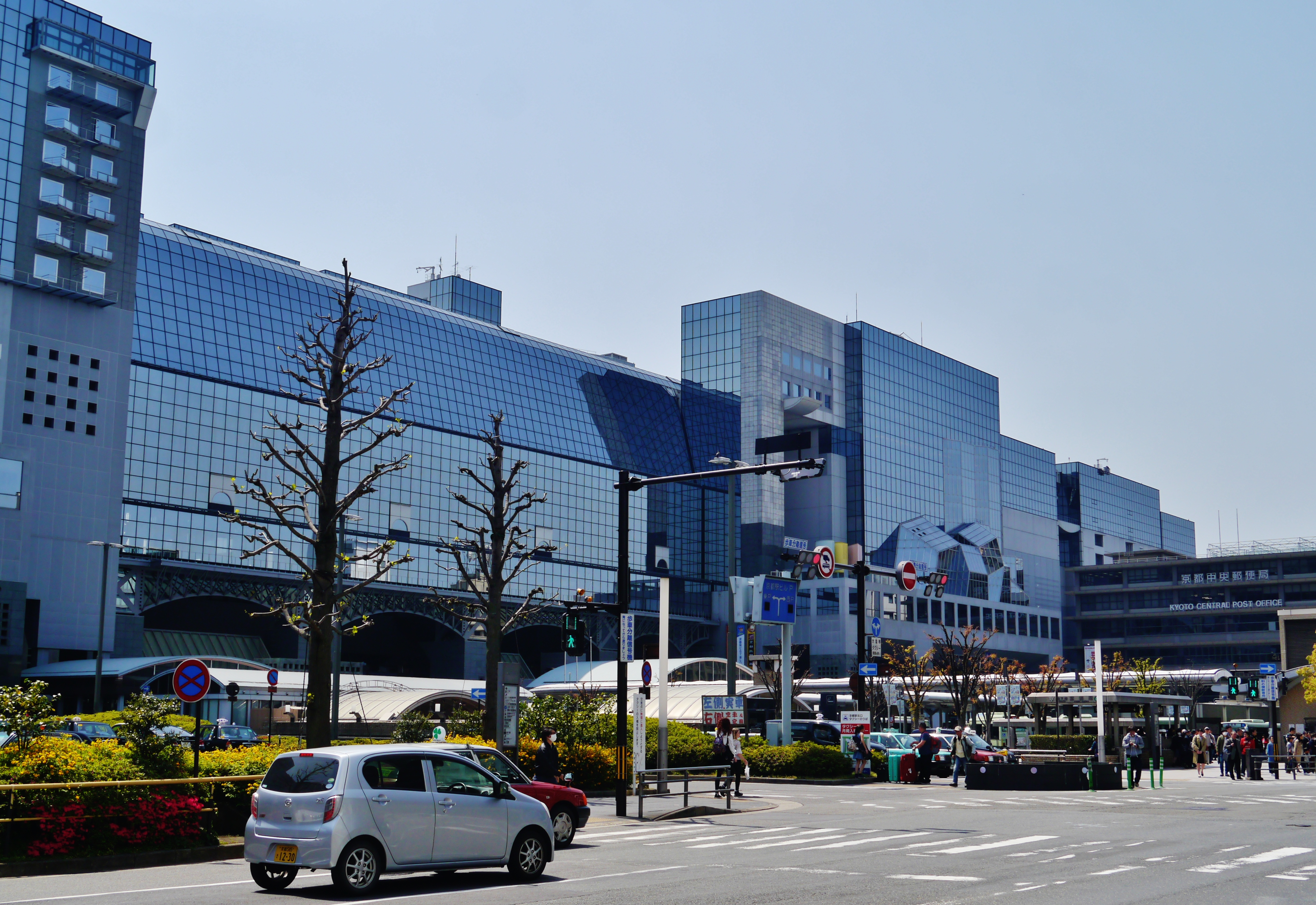 Kyoto Station, Kyoto, Kyoto Prefecture, Kinki Region, Japan